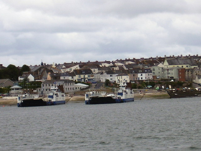 View of Torpoint from one of the ferry boats I was a pedestrian passenger on the ferry and took this photo towards Torpoint where 2 more ferry boats waited.